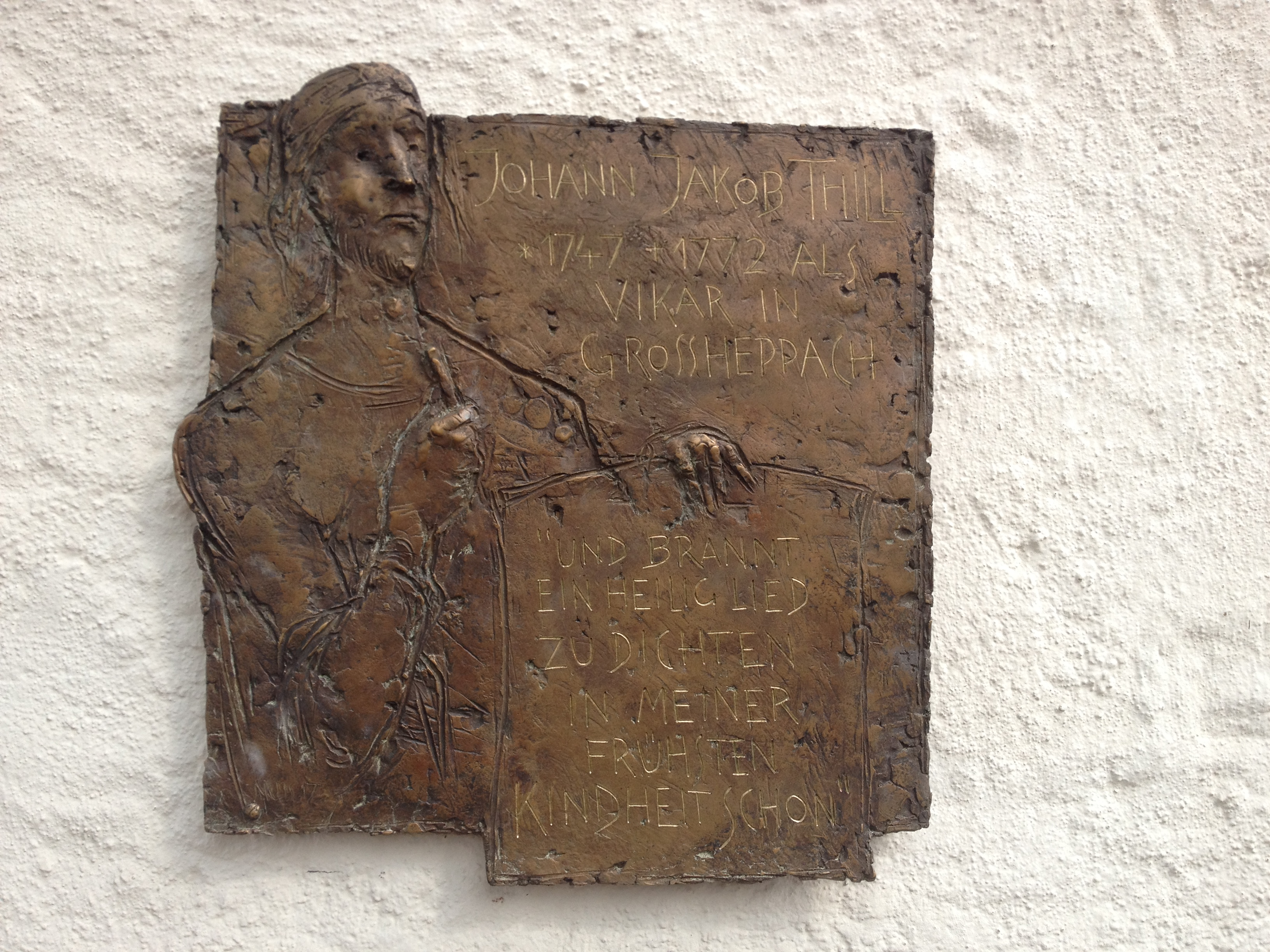 Gedenktafel für den deutschen Dichter Johann Jakob Thill (1747-1772) in Großheppach, Deutschland, gestaltet von Ulrich Nuss.